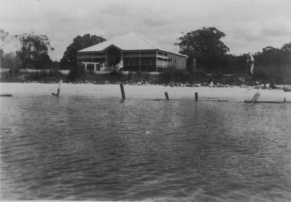 Labrador House in Southport, ca. 1920 Timber guesthouse right on the sea front at Southport. The address of the property was 400, Marine Parade, Southport. (Description supplied with photograph.).